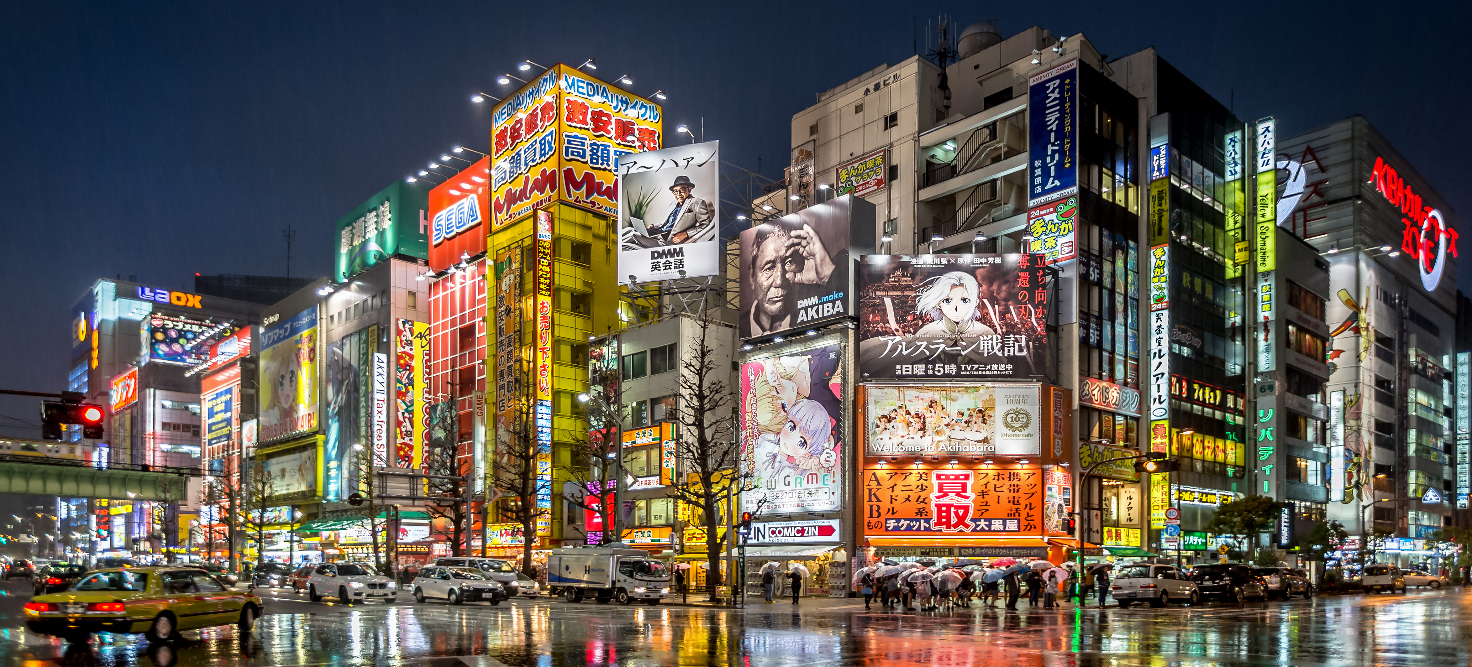 Akihabara district at night, west side of Sotokanda. Edited version.